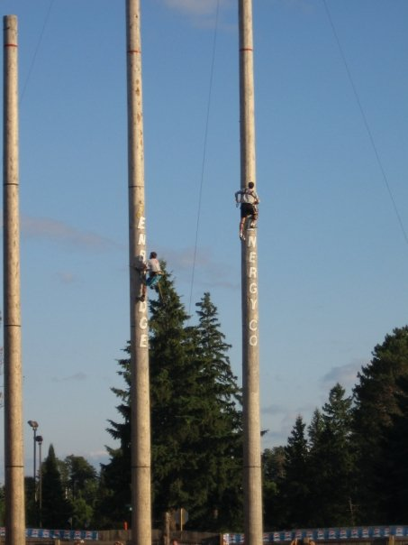 Lumberjack World Championship 2009 Speed Climbing Competition